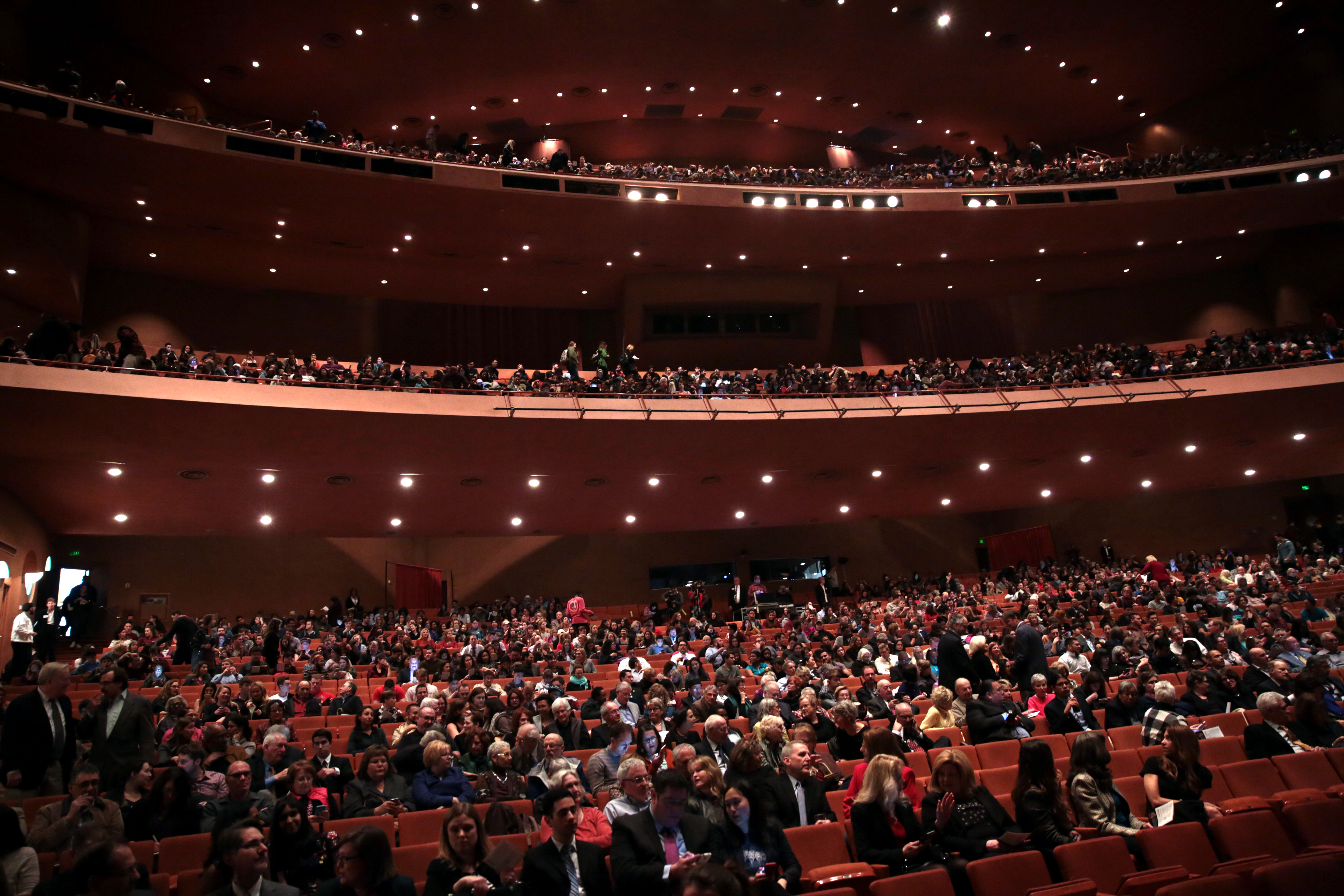 Attendees at lecture with United States Supreme Court Justice Sonia Sotomayor at Gammage Auditorium at Arizona State University in Tempe, Arizona.